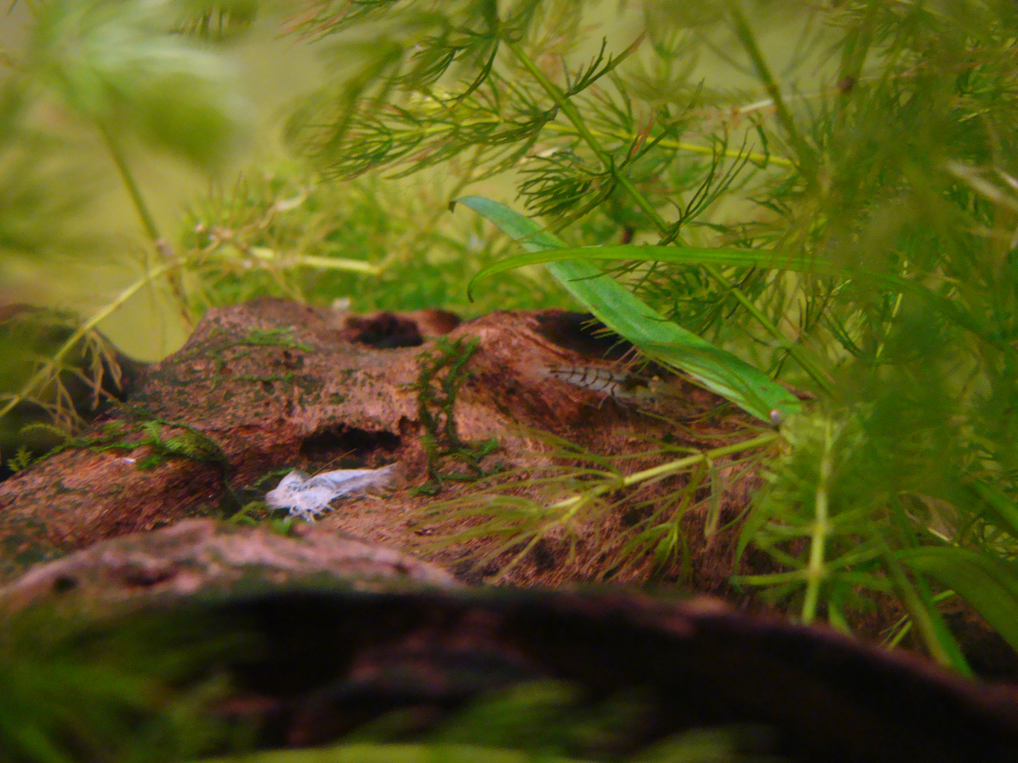 A blue tiger shrimp molting, with an adult male standing nearby.